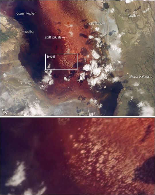 Satellite imagery of Lake Natron with features labelled.